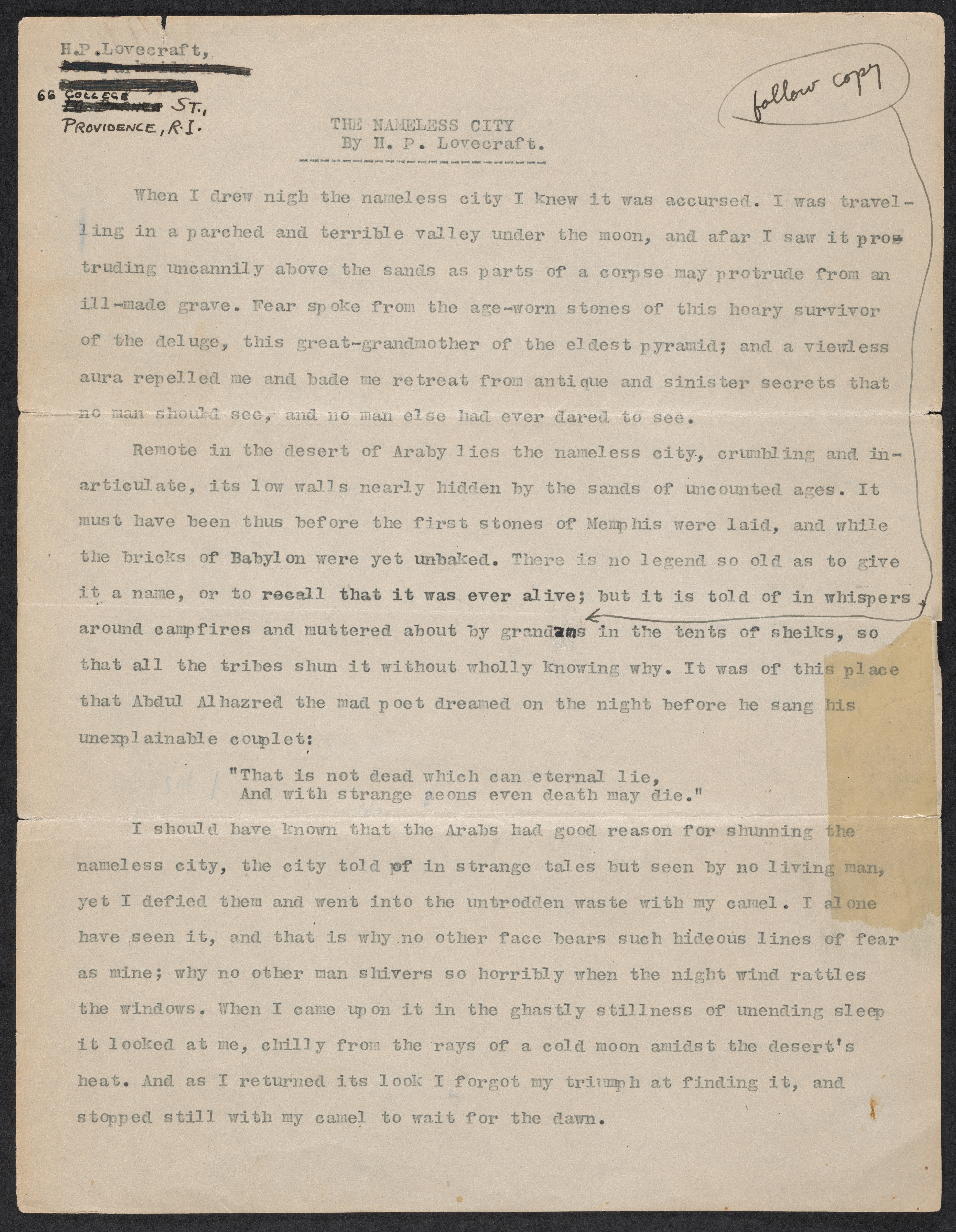 First page of the manuscript The Nameless City.